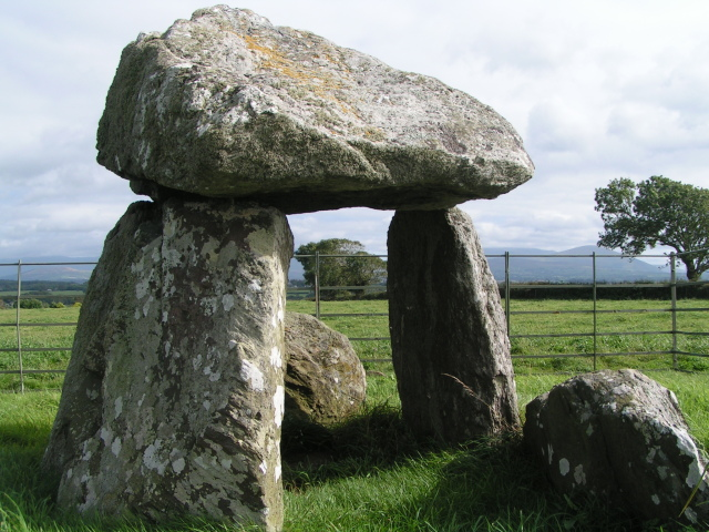 Bodowyr burial chamber